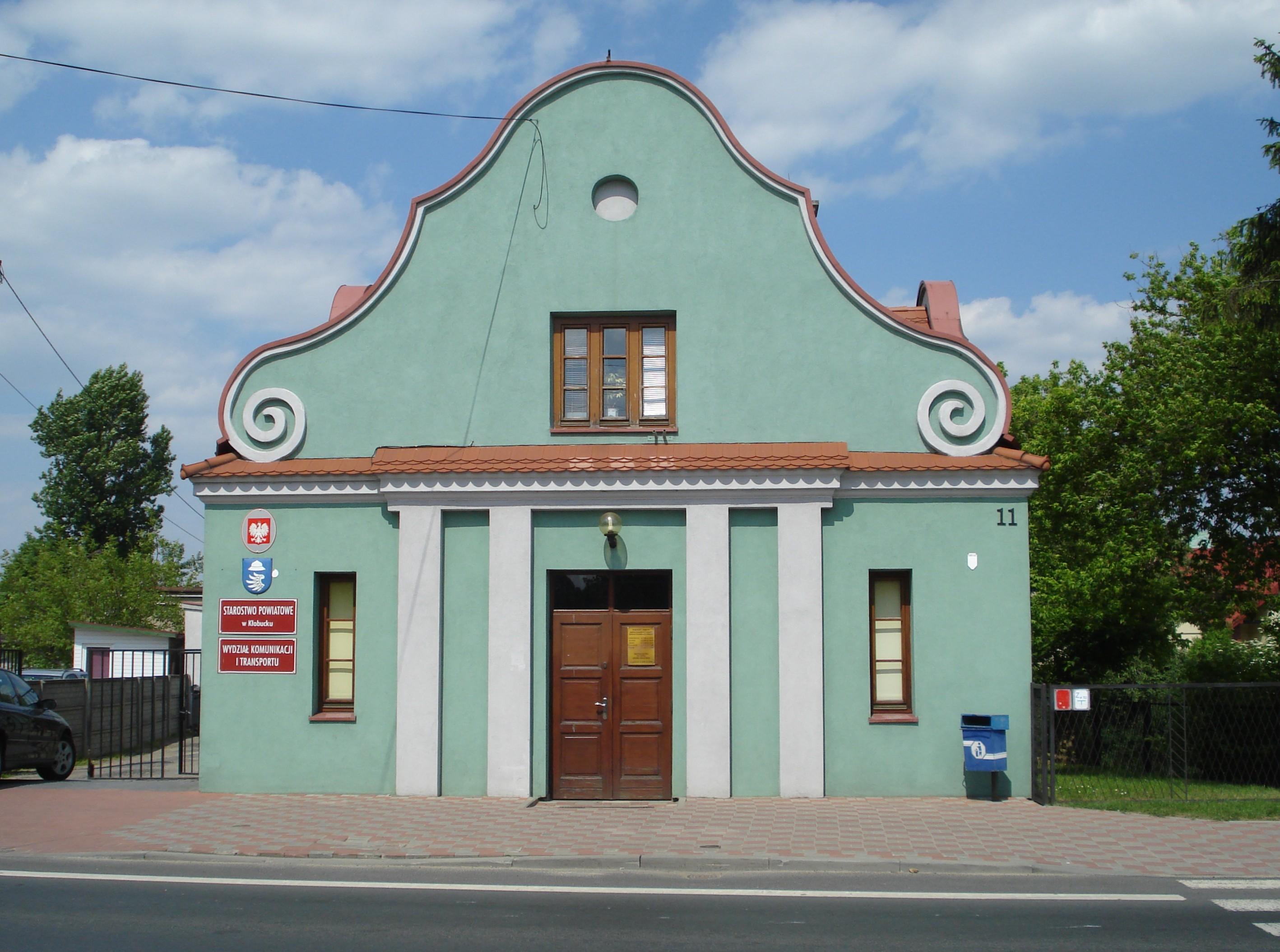 Former public bath, now local council building in Kłobuck, Poland